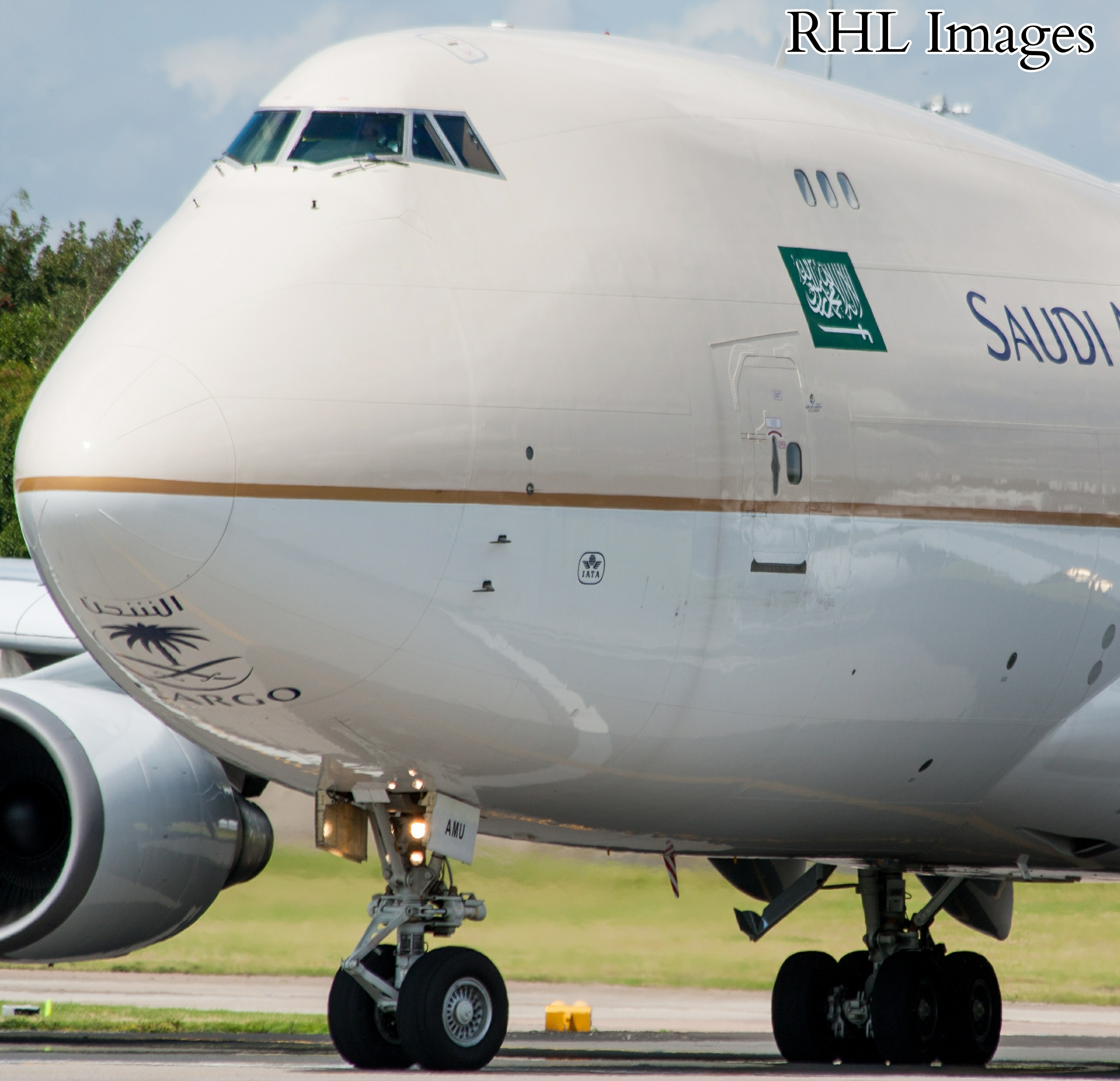 Manchester International